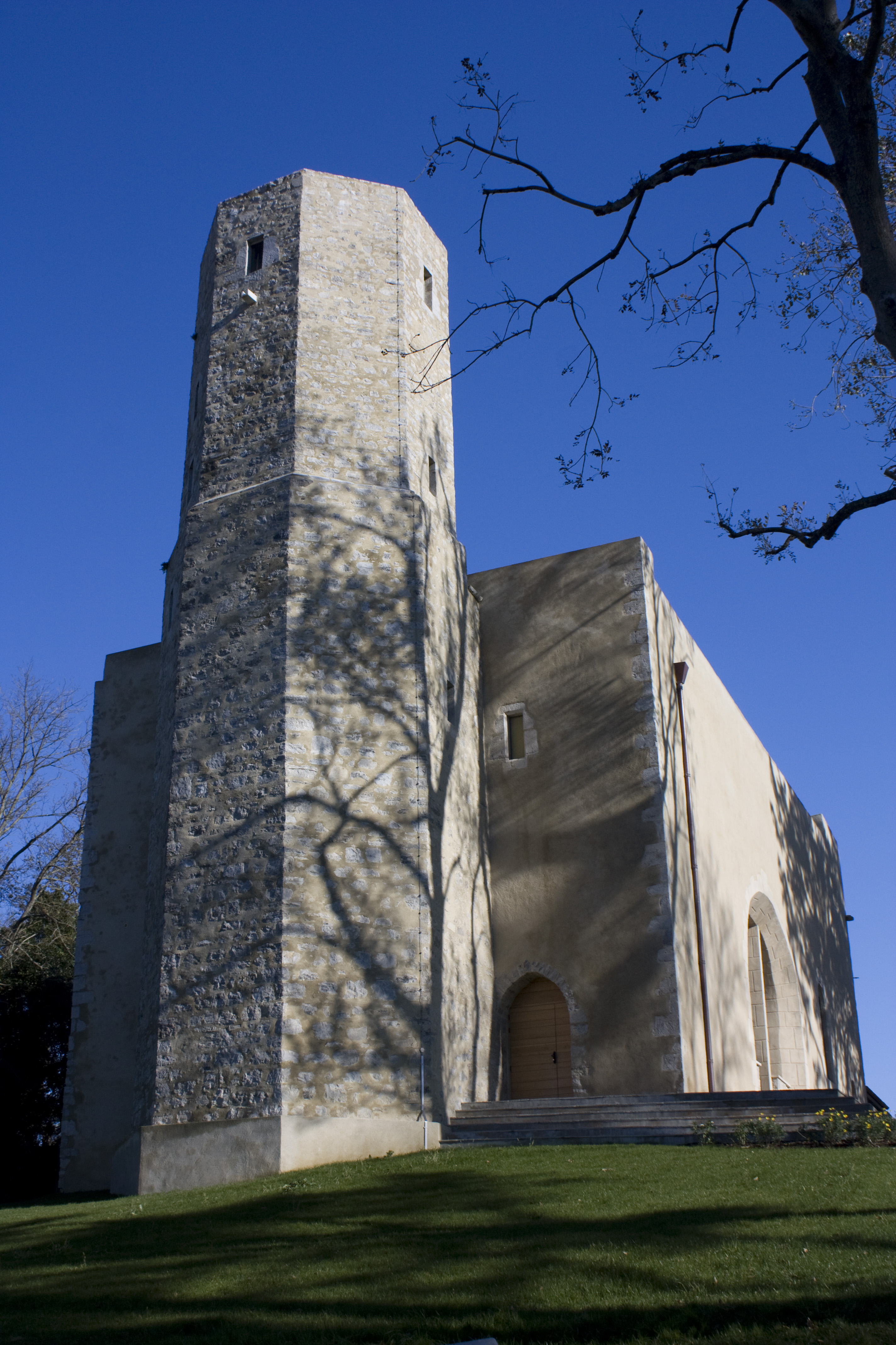 The Bordagain tower was the bell tower of the ancient church of Our Lady of Bordagain (16 century). Chapel became Our ​​Lady of Pains. Substantial revised in 1920, it is partially classified.